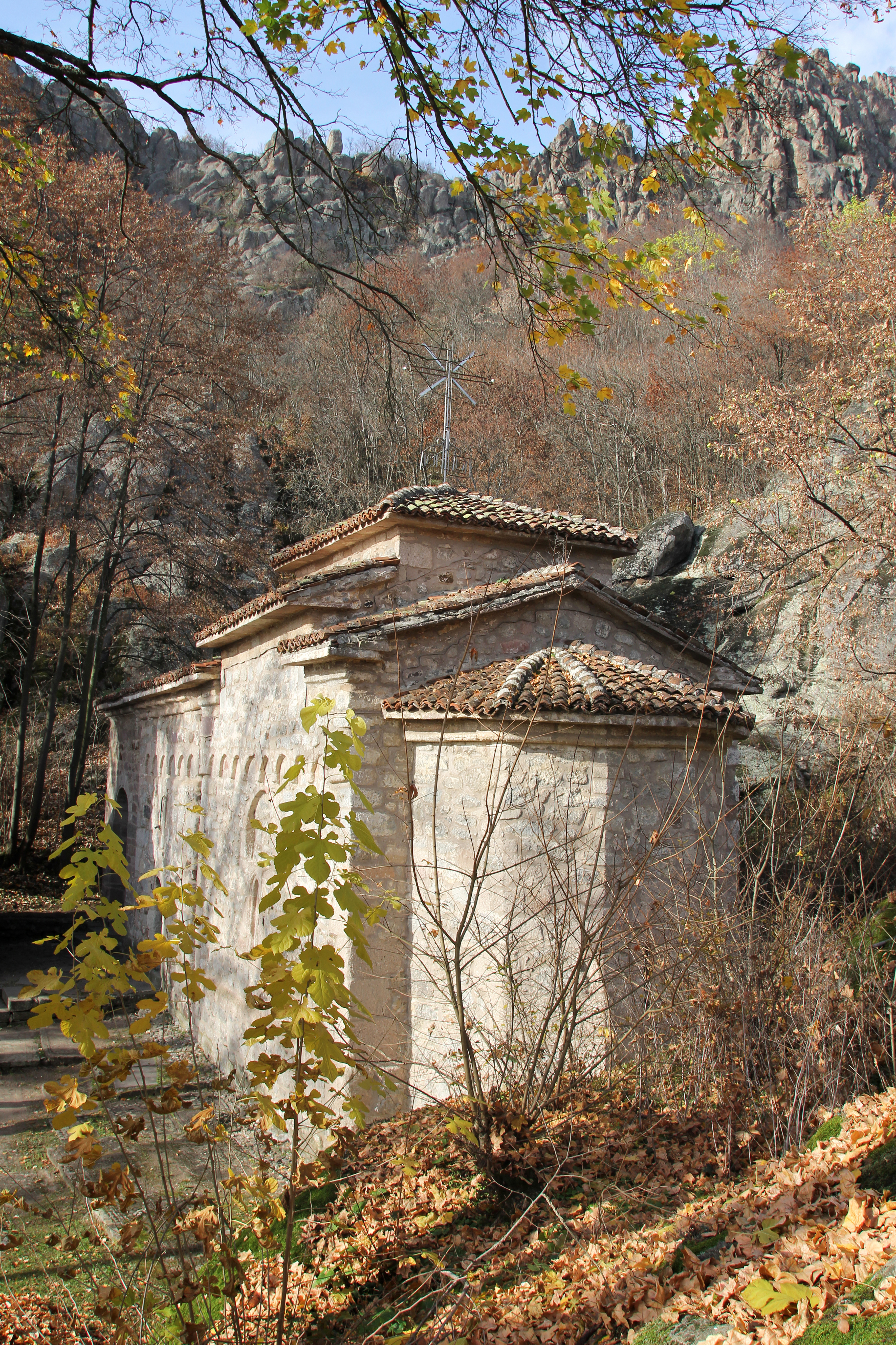 The rocks of Borački krš are the remains of a volcanic neck (volcanic form of relief resulted from the outburst of dense masses of acidic lava under pressure) created during the Middle Miocene and about 20 million years old. In addition to this natural phenomenon, the unique landscape of the future natural monument "Borački krš" is also rich with cultural heritage sites, the remains of the medieval city of Borač, which is a cultural monument of great significance, the Church of Archangel Michael at the foot of Borački krš, with unique frescoes, and the nearby cemetery from the 19th century.